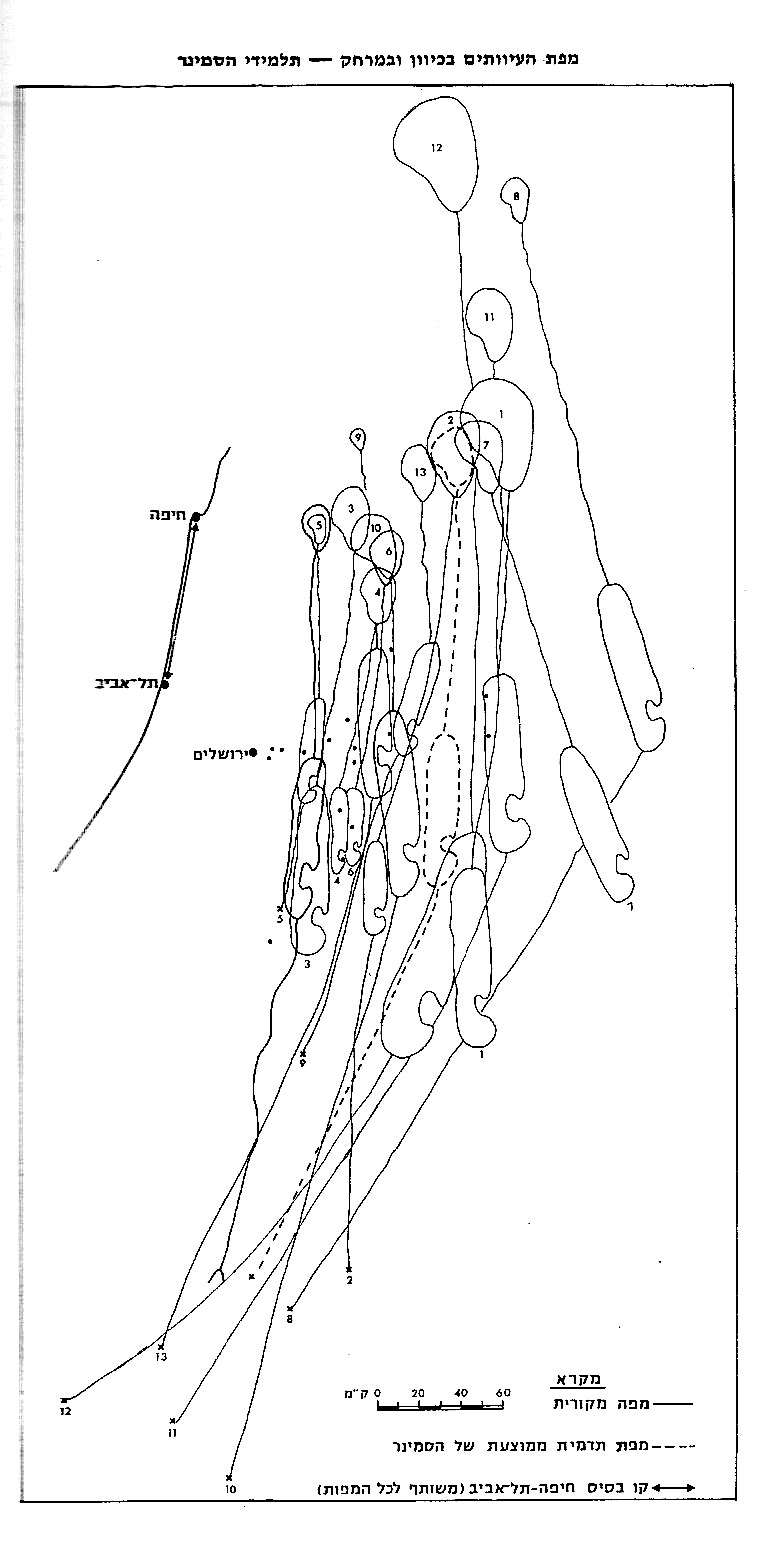 collective mental maps of Israel, by students 1979